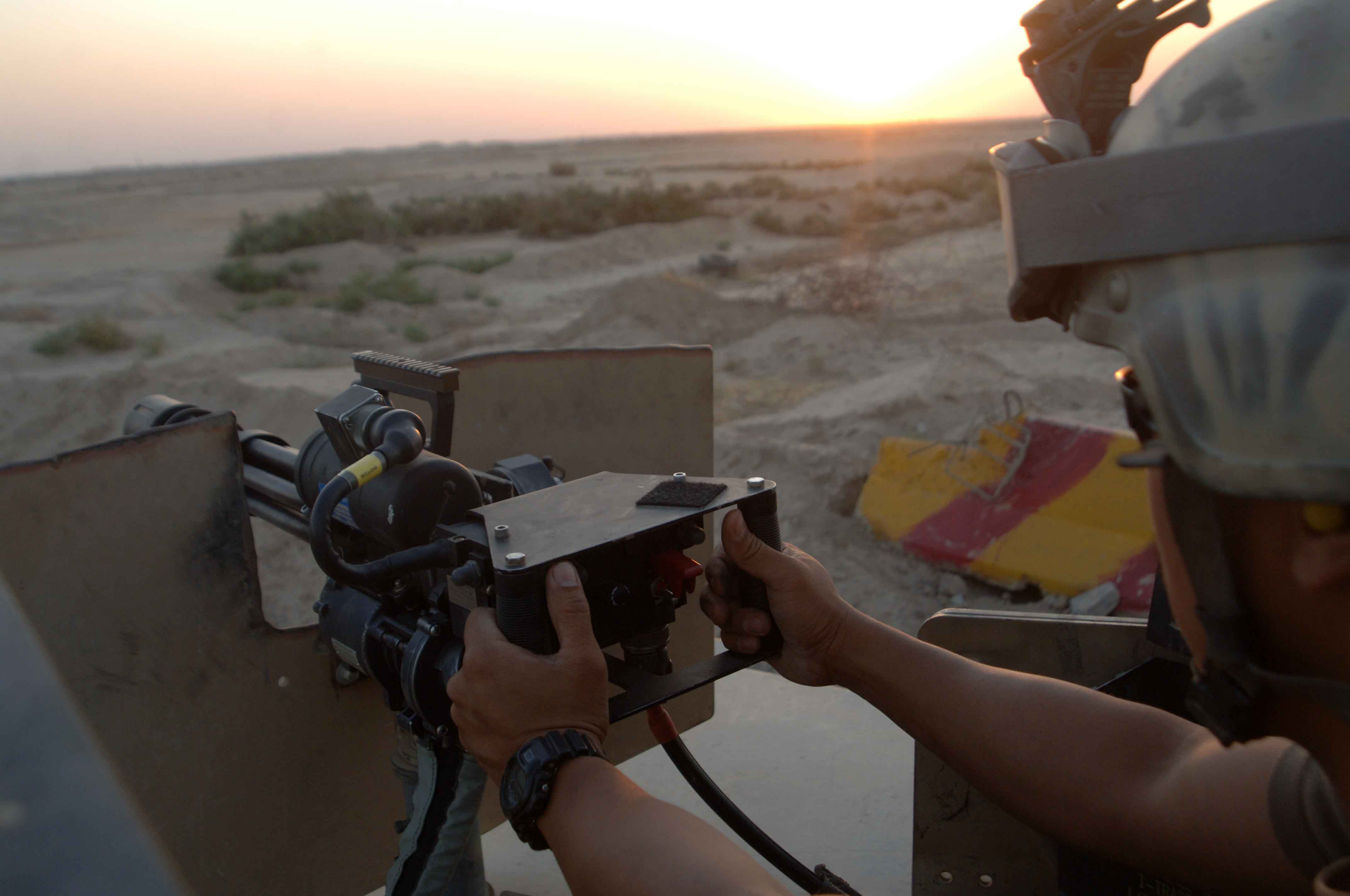 Camp Sheejan/Couragous, Iraq - A U.S. Army Special Forces soldier holds familiarization training on the MK-44 Mini Gun during Operation Iraqi Freedom.